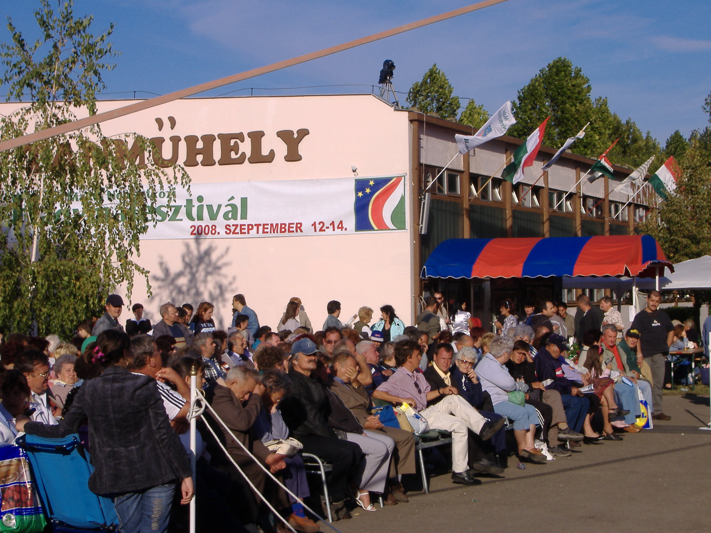 Makó International Onion Festival, 2008, Hungary.